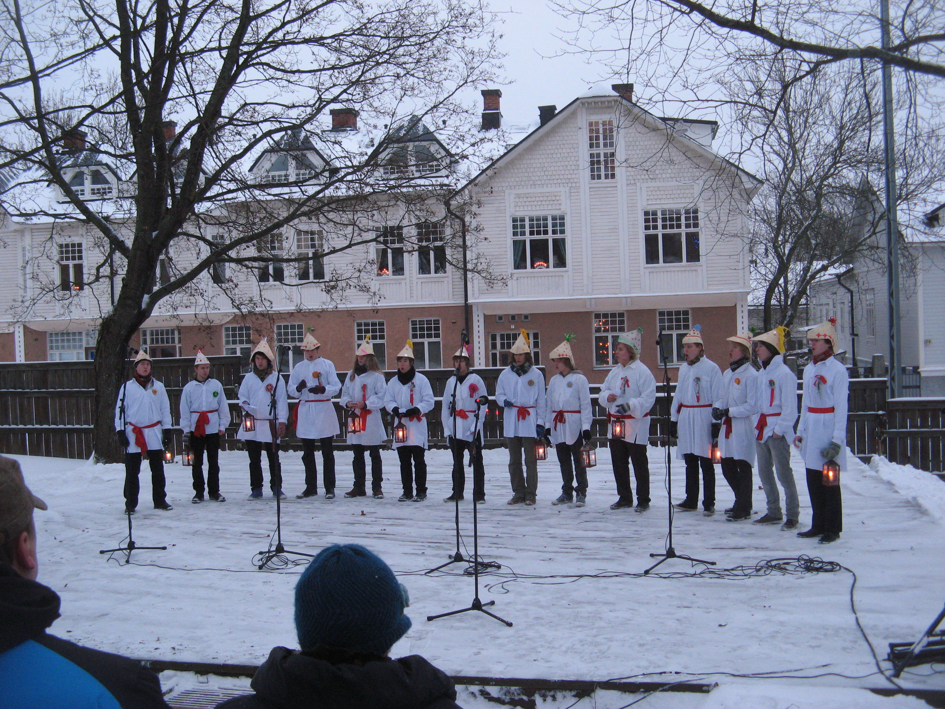 Pupils from the Puolalanmäki music lyceum singing at St. Stephen's Day in a yard in the Luostarinmäki Handicrafts Museum, demonstrating an old tradition.